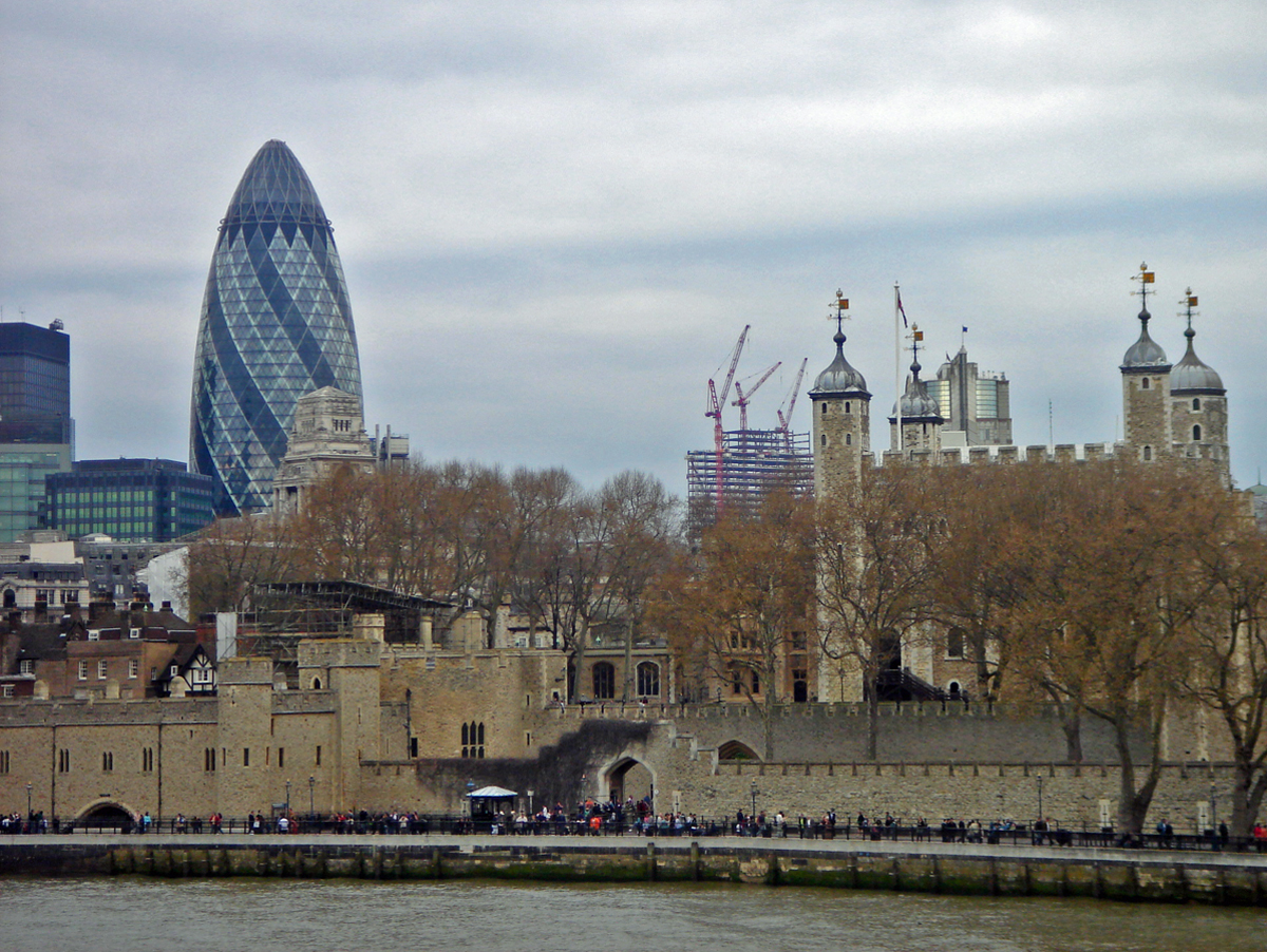 City landscape Swiss Re Tower with Tower of London